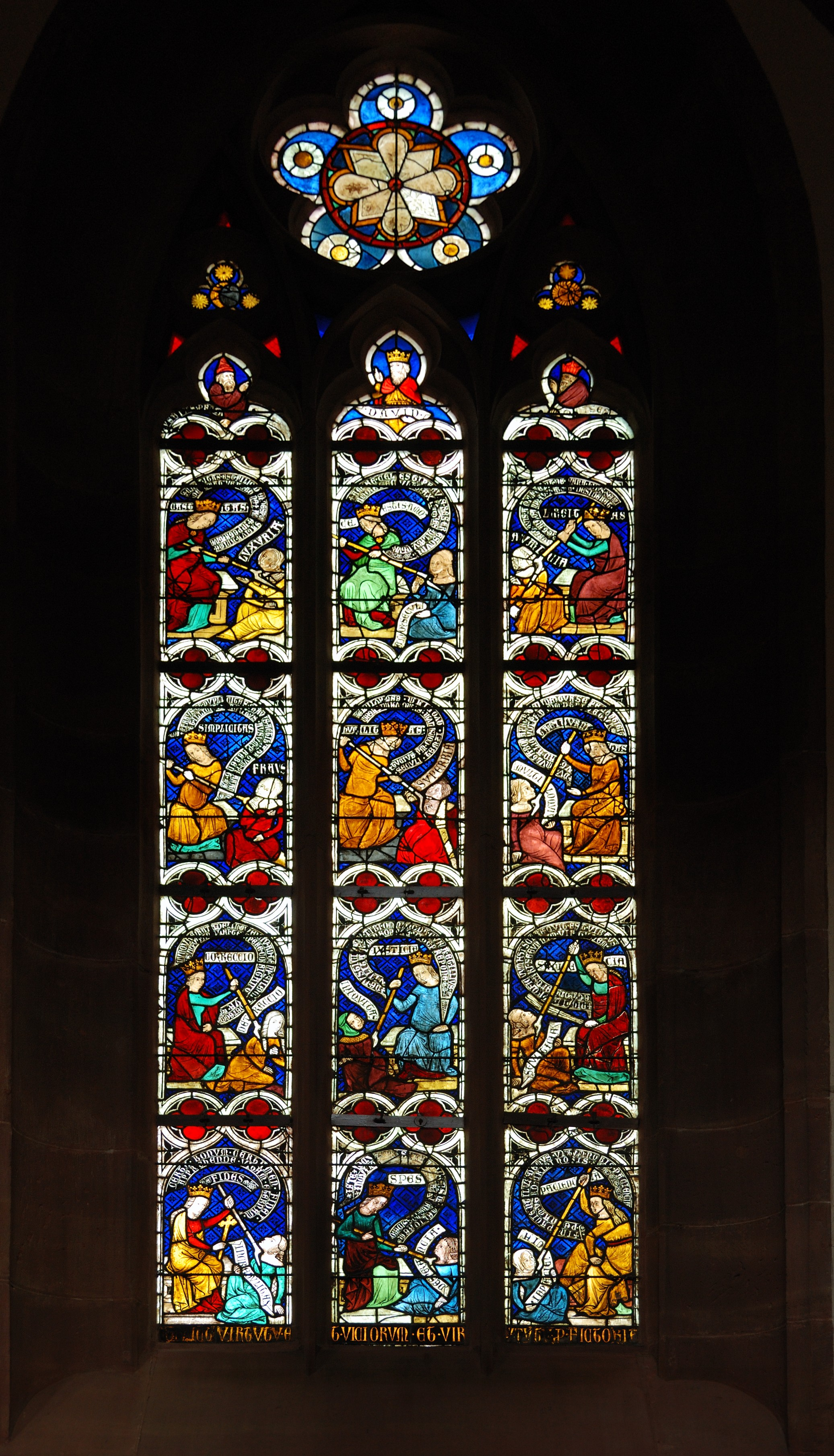 Niederhaslach Collegiate Church: Stained glass window in the north aisle The fight between virtues and vices